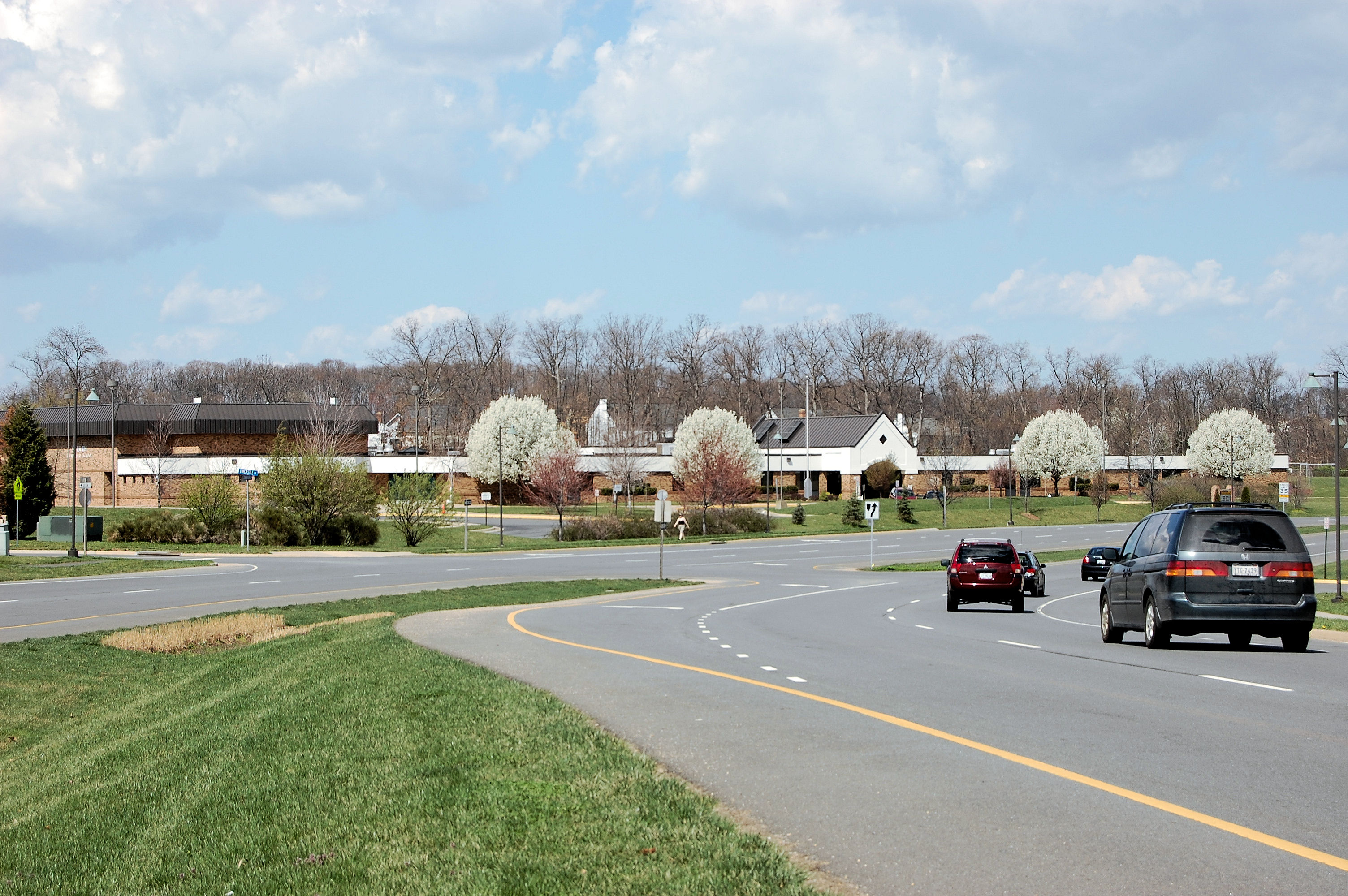 Ashburn Village, Ashburn Elementary School, Ashburn, VA (20147), USA 39.0437192° -77.4874899°